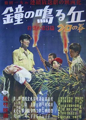 Movie poster for 1949 Japanese movie (鐘の鳴る丘 第三篇クロの巻 Kane no naru oka: Dai san hen, kuro no maki).